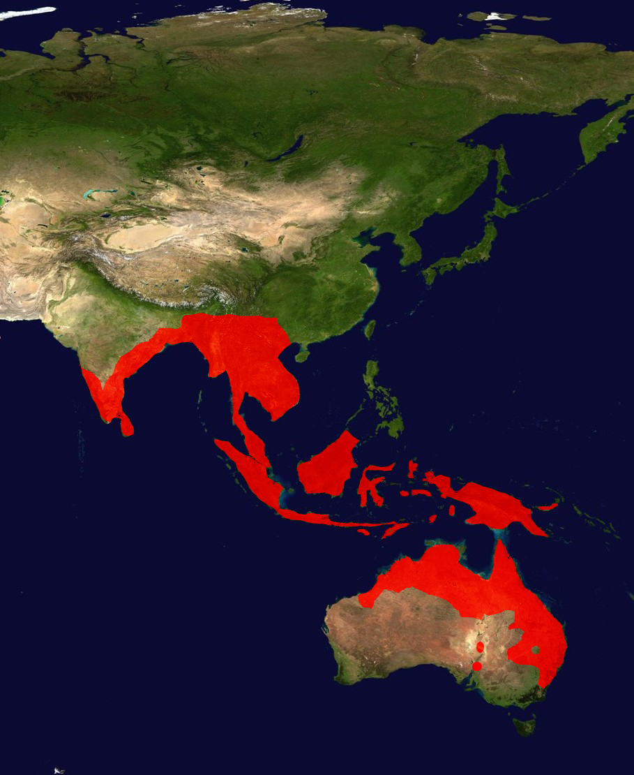 A range map for the Black-Necked Stork